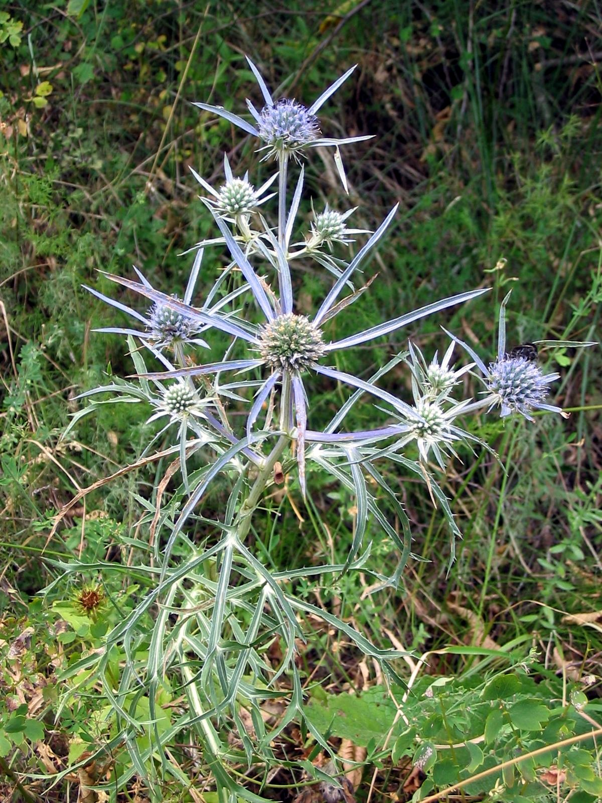 Photo of Eryngium amethistinum taken in mount Summano, in the italian Alps